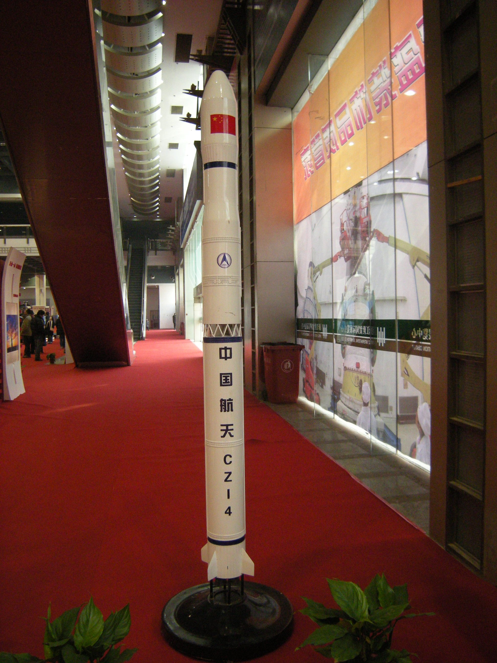 CZ-4 launch vehicle model